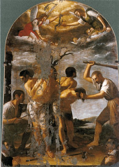 Martyrdom of Four Crowned Martyrs, painting by Mario Minniti in San Pietro dal Carmine, at Siracusa, Sicily